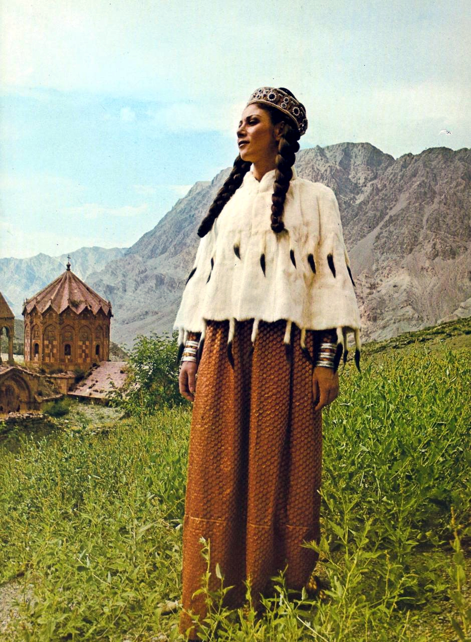 Taraz (national costume) of an Armenian woman during Bagratid dynasty (9th-13th c.) The furs of various animals found in Armenia were used for mantles and fur trim, including the stoat, whose greatly prized winter fur is ermine, a term which derives from the word Armenia, for it was an item of trade identified with Armenian merchants offering their wares to the royal courts of Europe.